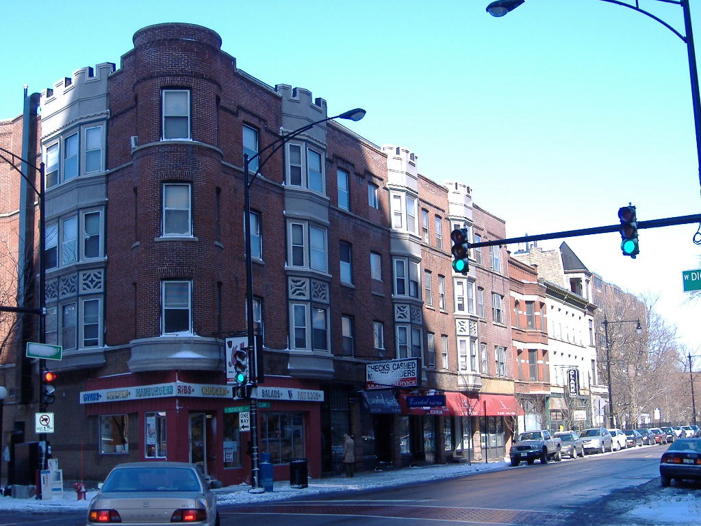 Apartment buildings on Clark and Dickens in Chicago, IL. Used for exterior shots of the apartment building in Seasons 3 - 6 of Perfect Strangers (TV series).